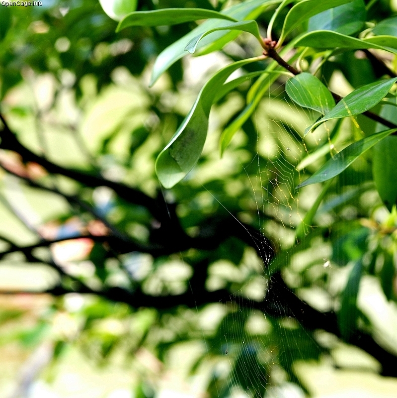 Arthropoda Classis:Arachnida Ordo:Araneae Familia:Araneidae Genus: Araneus